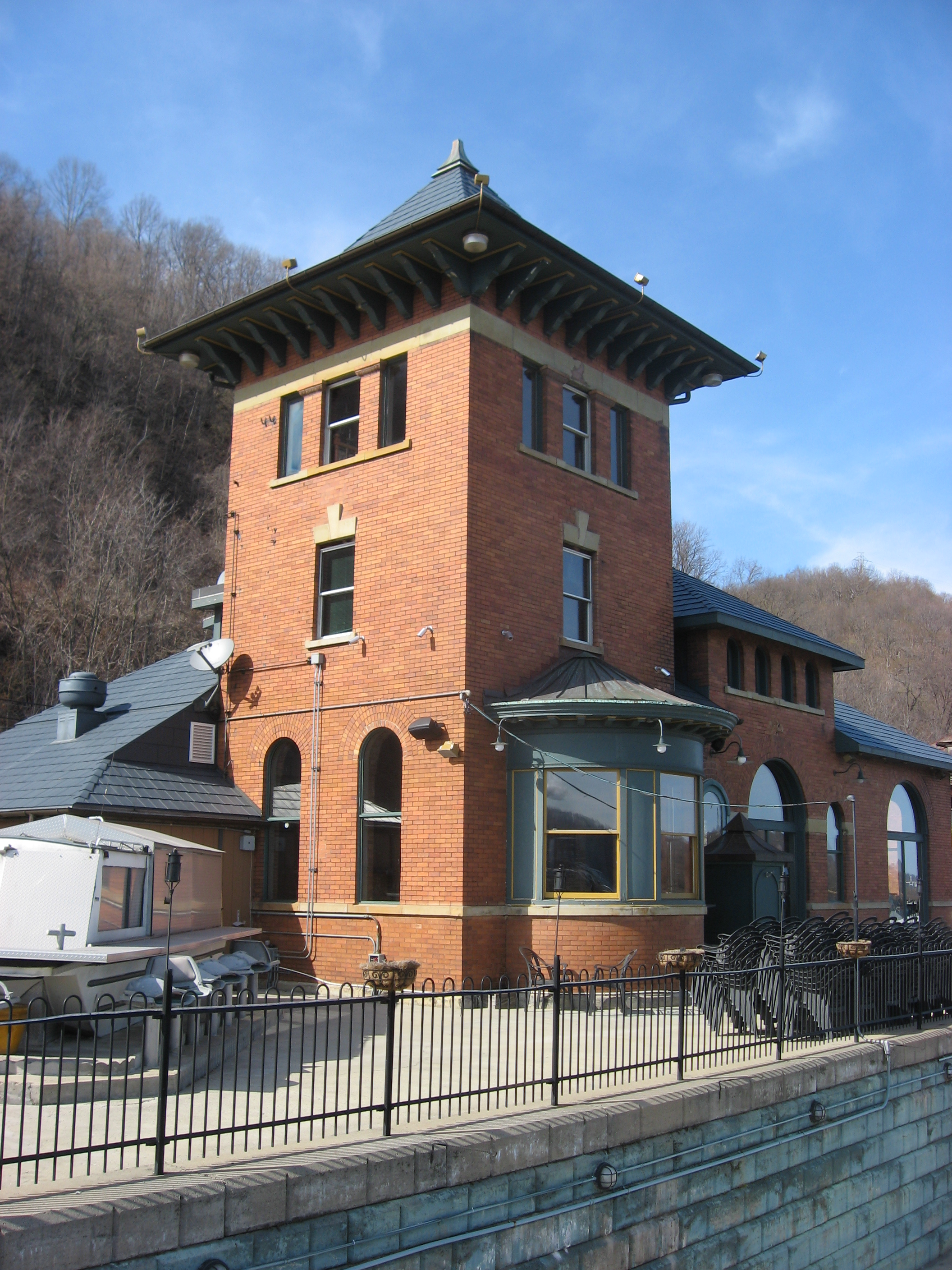 Southwestern front of the former powerhouse at the Merrill Lock No. 6, located along the Ohio River at Industry in Beaver County, Pennsylvania, United States. The lock and its associated dam and buildings were completed in 1906 and superseded in 1936. The Romanesque powerhouse (the larger of the two buildings at the site) currently serves as the location of a restaurant; it is listed on the National Register of Historic Places.